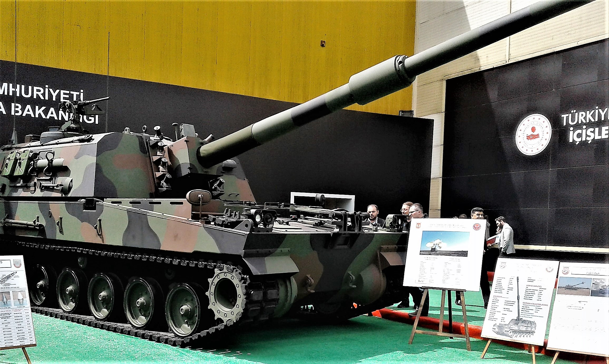 155 mm tracked self-propelled howitzer T-155 Fırtına at the IDEF 2019 in Istanbul, Turkey.